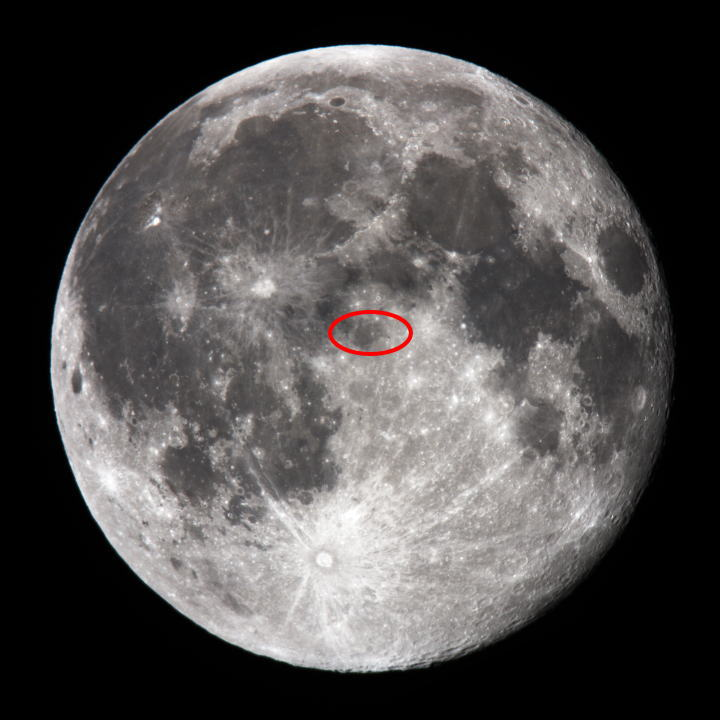 The Location of Sinus Medii, One of the Lunar Geographical Features.